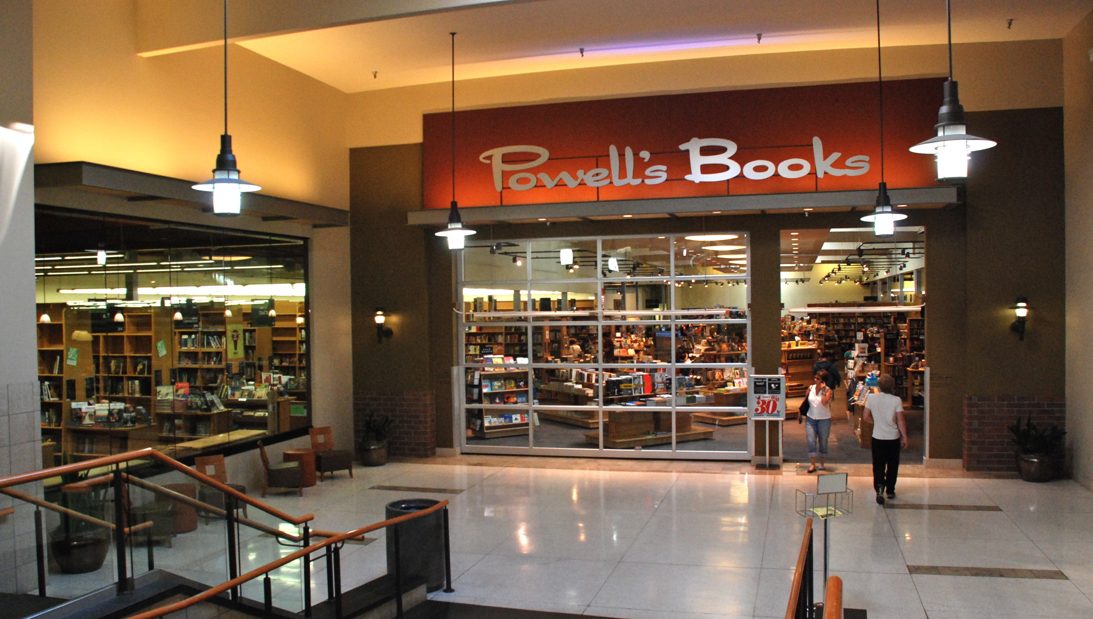 The north entrance to the Powell's Books store at Cedar Hills Crossing (in Beaverton, Oregon) is located inside the mall.